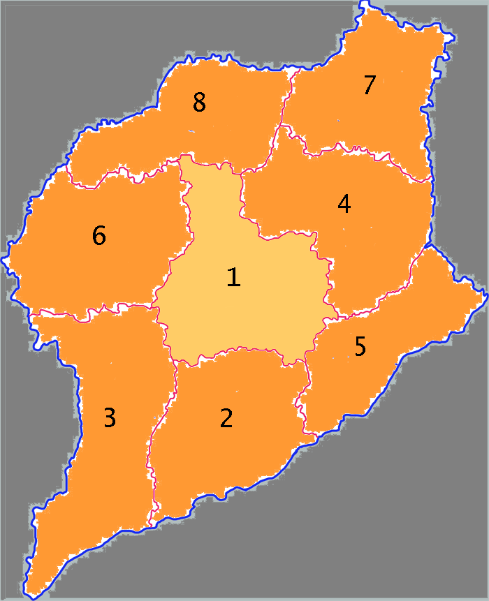 Municipalities of Liaocheng city in Shandong province, China